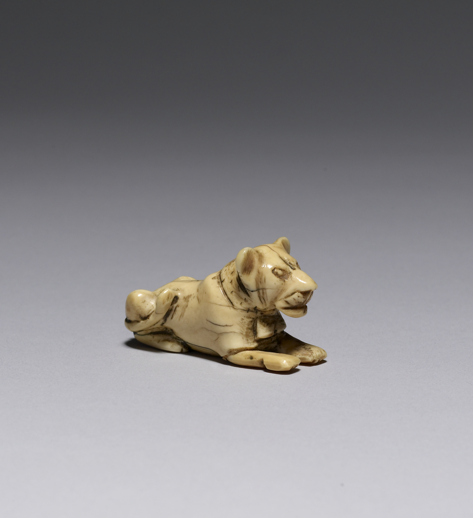 Ivory was used, from predynastic times forward, to create luxurious practical objects such as combs, hair pins, amulets, spoons, and knife handles (Drenkhahn 1986). Around 3000-2900 BC, a distinctive class of ivory objects--gaming pieces in the form of animals--emerged. These small statuettes represent recumbent lions (both male and female) and hounds. The broad collar and absence of a mane indicate that the subject of the piece illustrated here is a female lion; the rectangular pectoral on the figure's breast is the result of modern recarving, and the high polish was not original to the figure. Such a figurine was probably used in the game of "Mehen" ("coiled one"), played on a round board in the form of a coiled serpent with a trapeziodal projection. The game was popular until the end of the Old Kingdom.